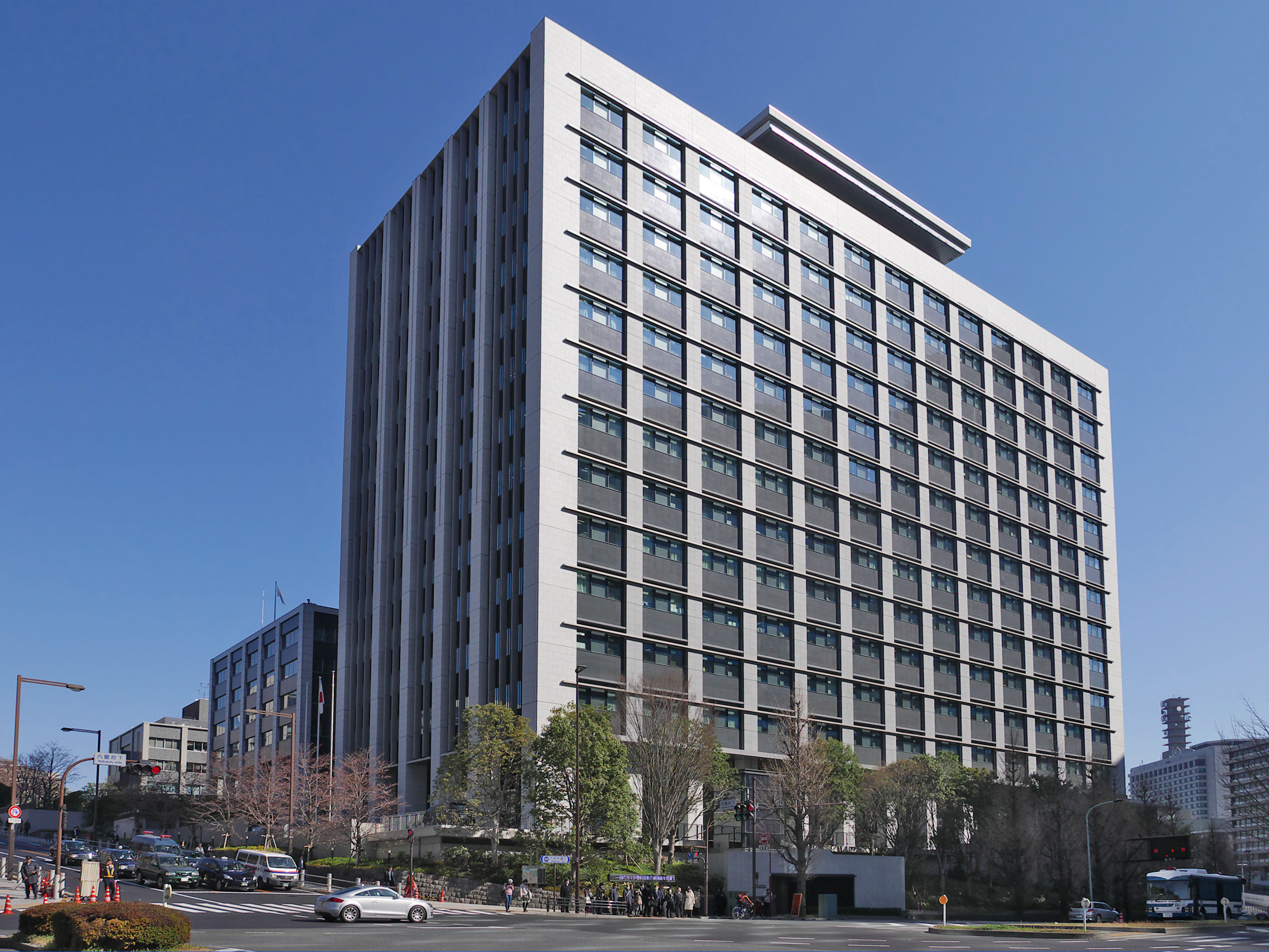 CENTRAL COMMON GOVERNMENT OFFICES No.8 1-6-1 Nagatacho, Chiyoda-ku, Tokyo 100-8914